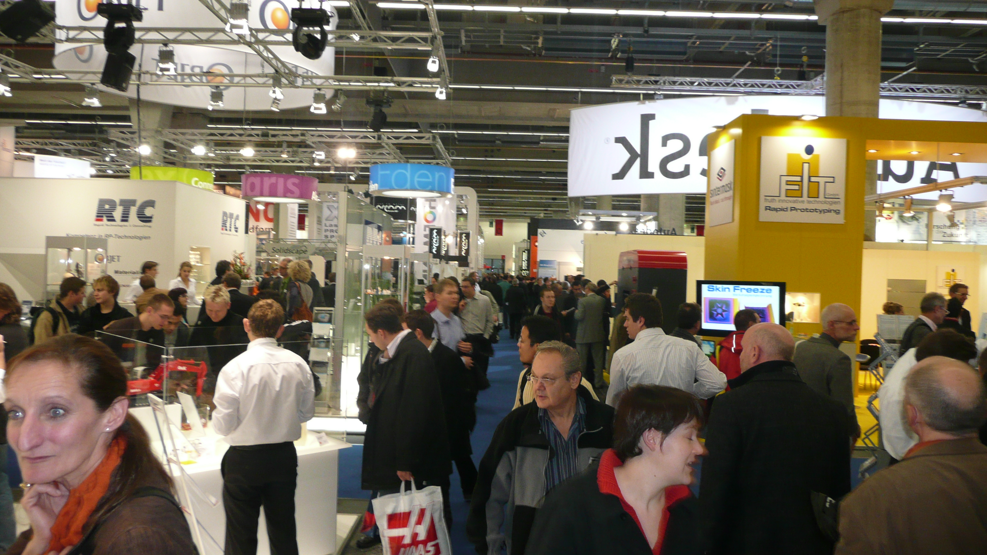 World Fair EuroMold 2009 in Frankfurt